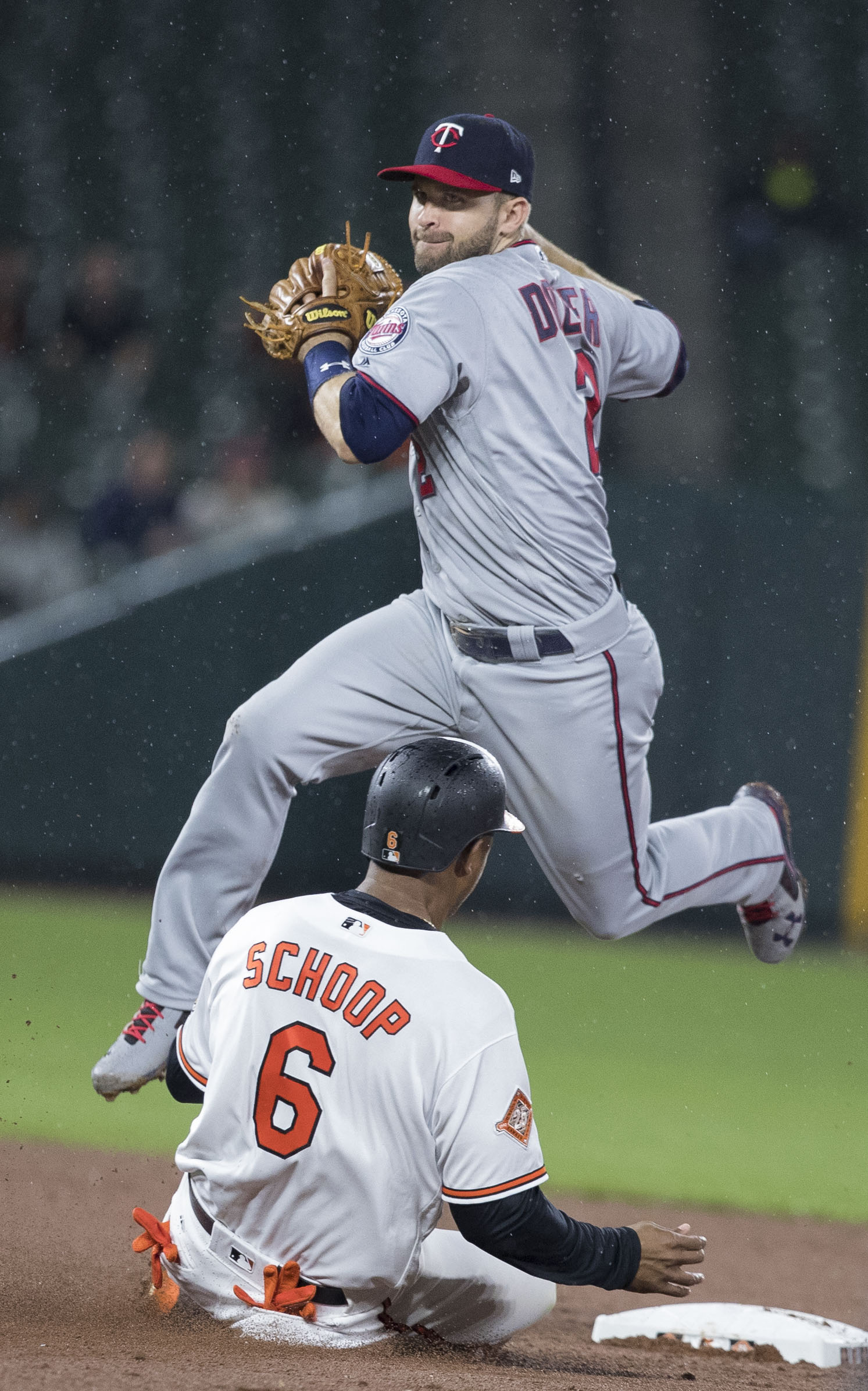 Brian Dozier of the Minnesota Twins jumps over Jonathan Schoop of the Baltimore Orioles after forcing him out at second base in the fifth inning at Oriole Park at Camden Yards on May 23, 2017 in Baltimore, Maryland.